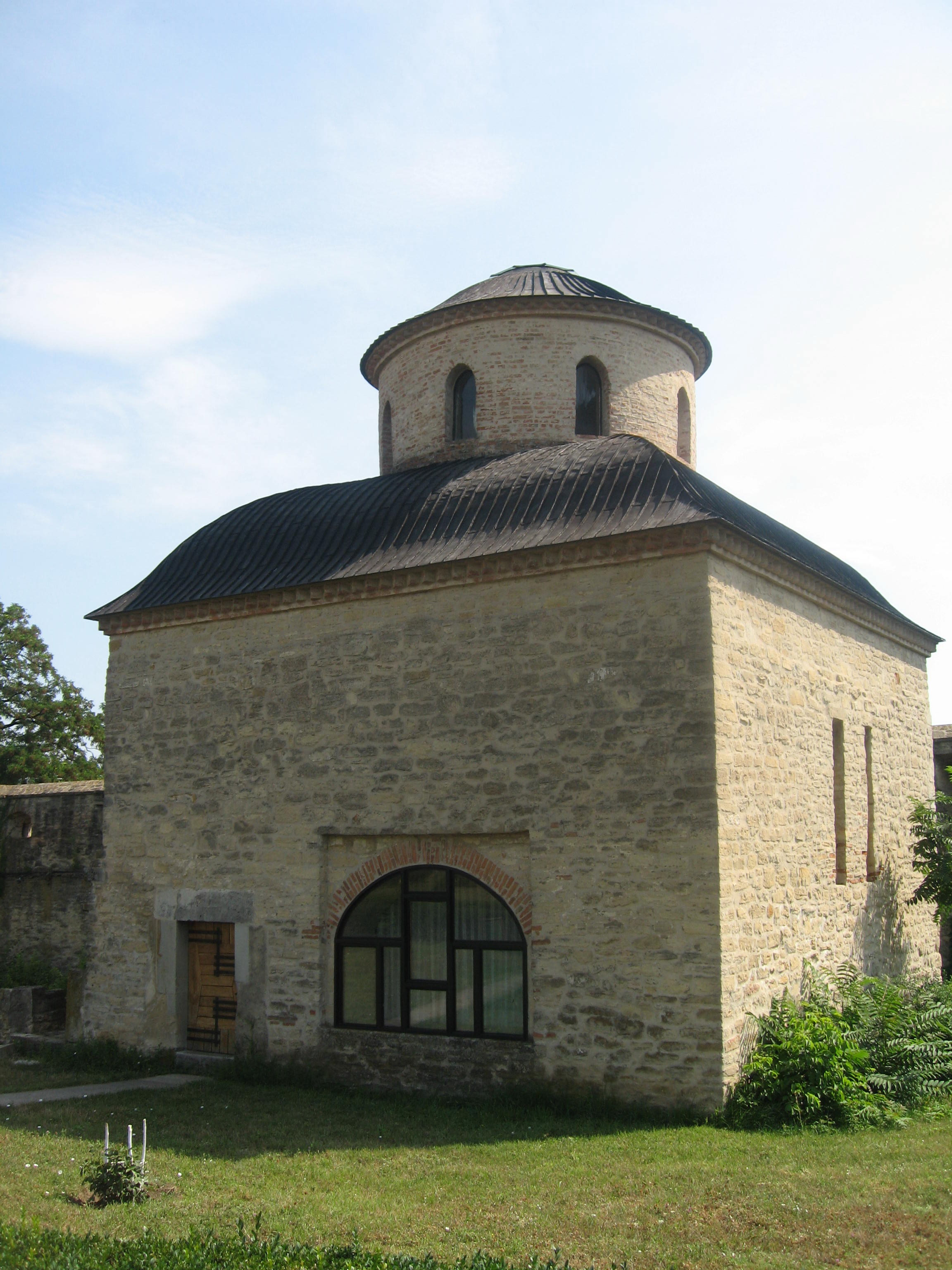 Mănăstirea Cetăţuia